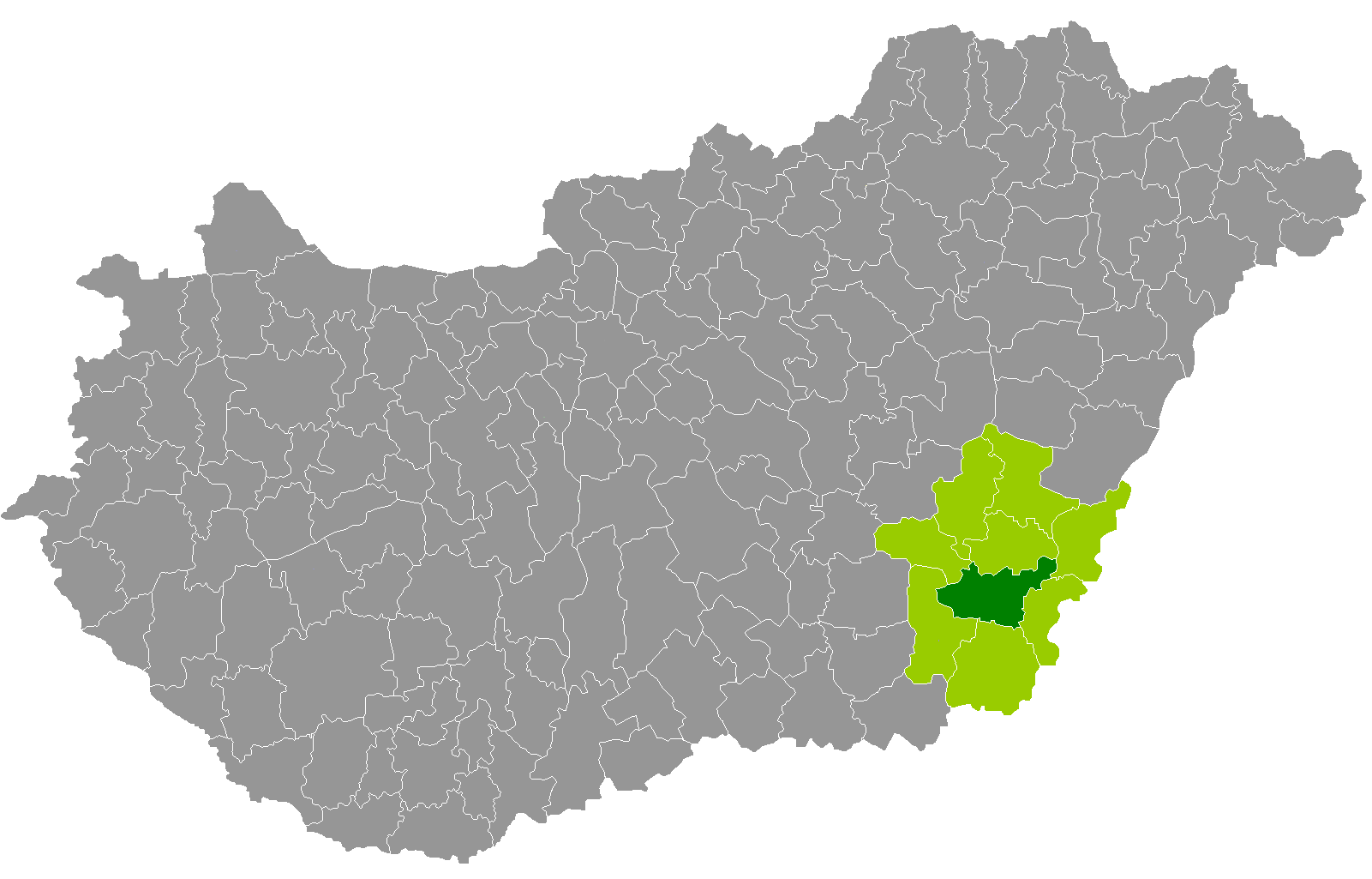 Location of Békéscsaba District, Békés, Hungary